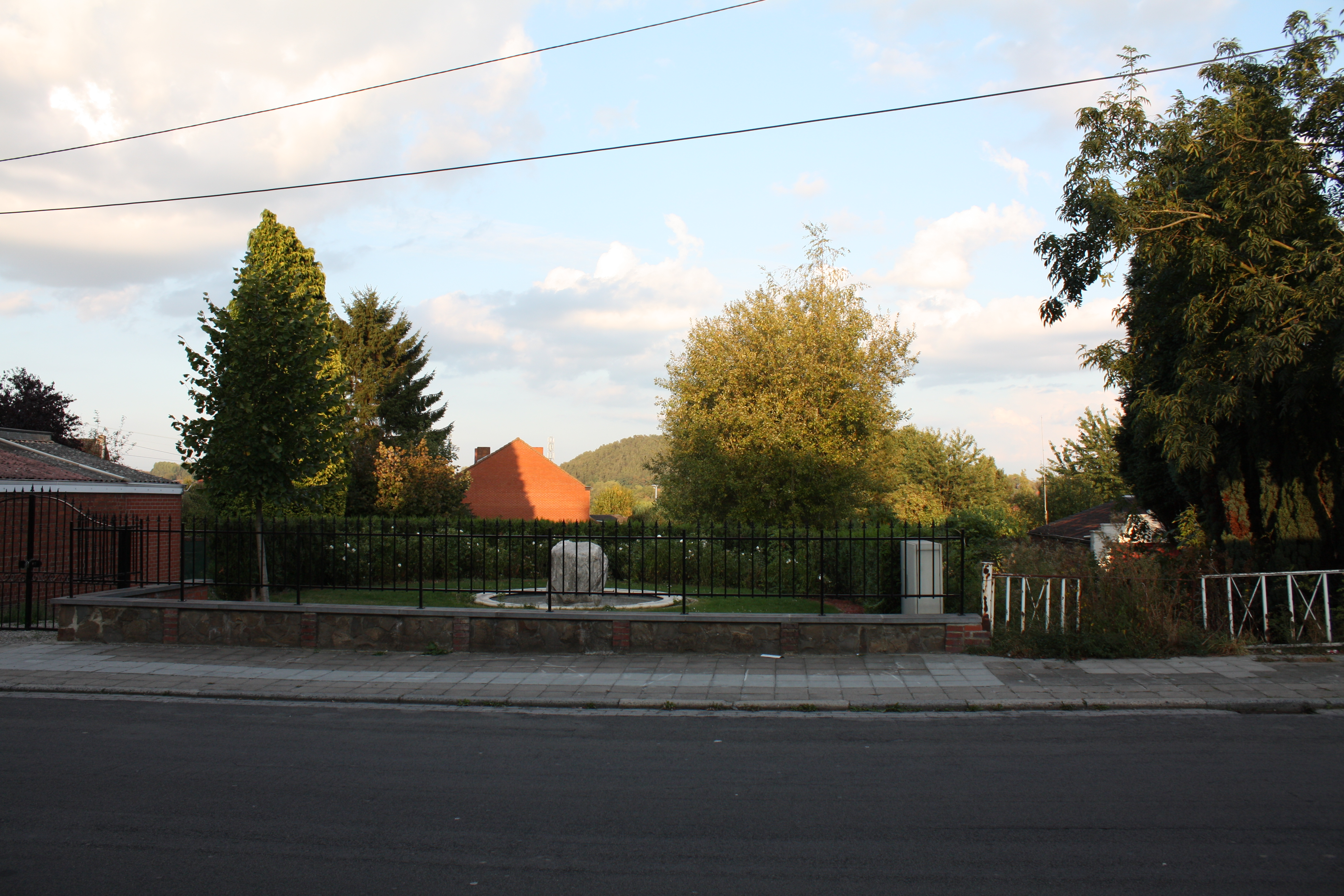 Location of former house of Marc Dutroux in the Rue Daubresse 63, Jumet, Belgium. The house has been demolished and replaced with a small monument.